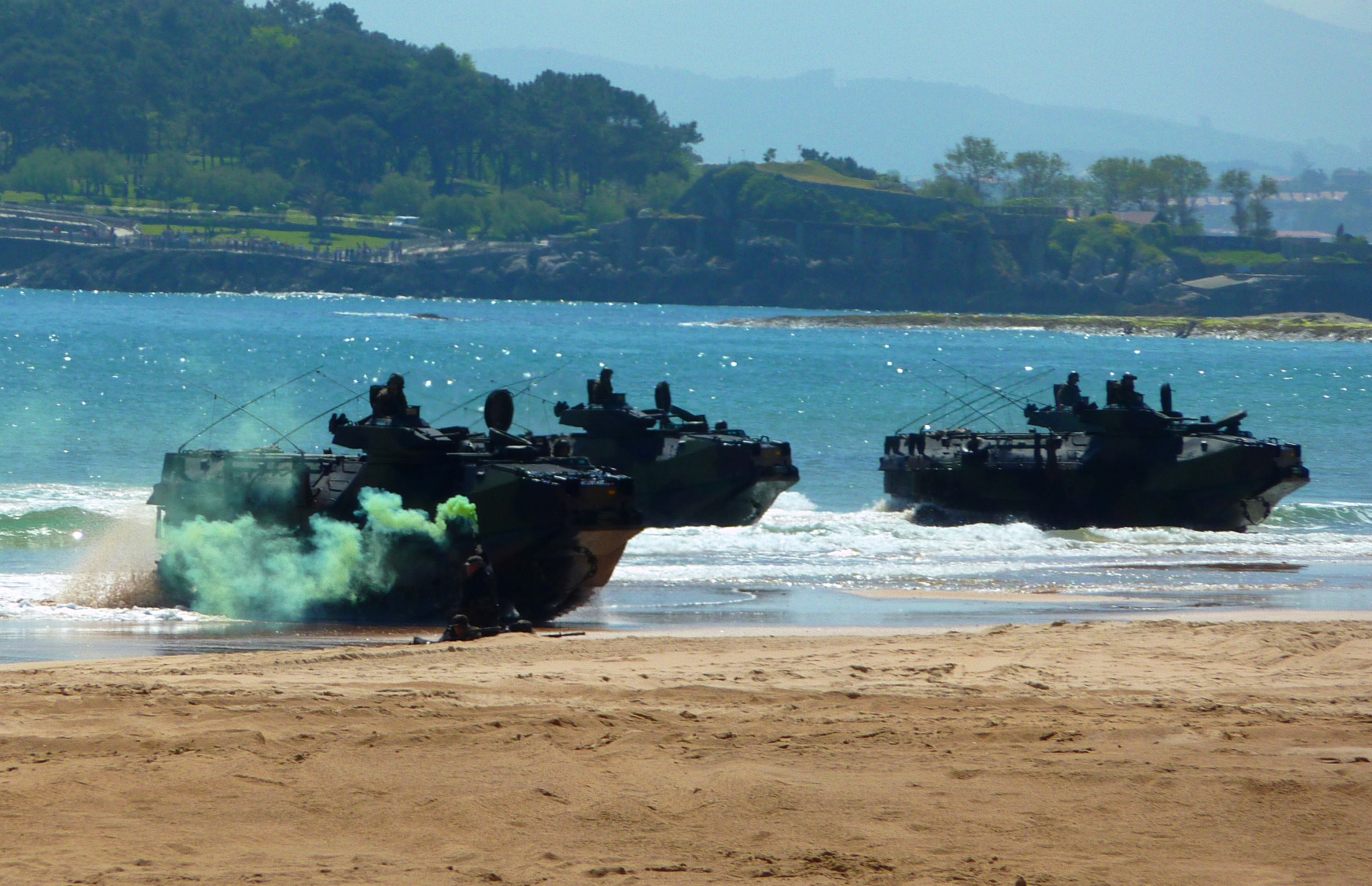 Spanish Marines AAV-7A1,s.